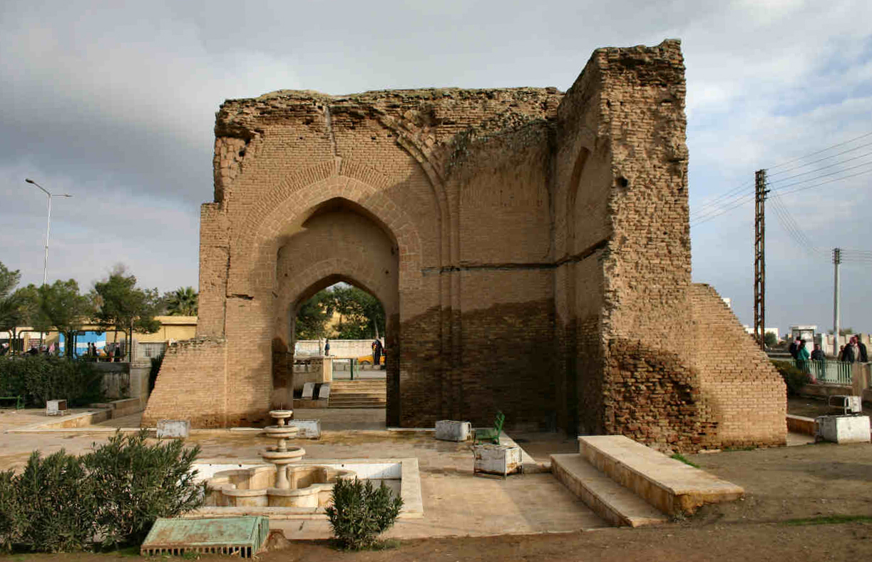 The Abbasid "Baghdad Gate" (8th. century) in Ar-Raqqah (Syria).